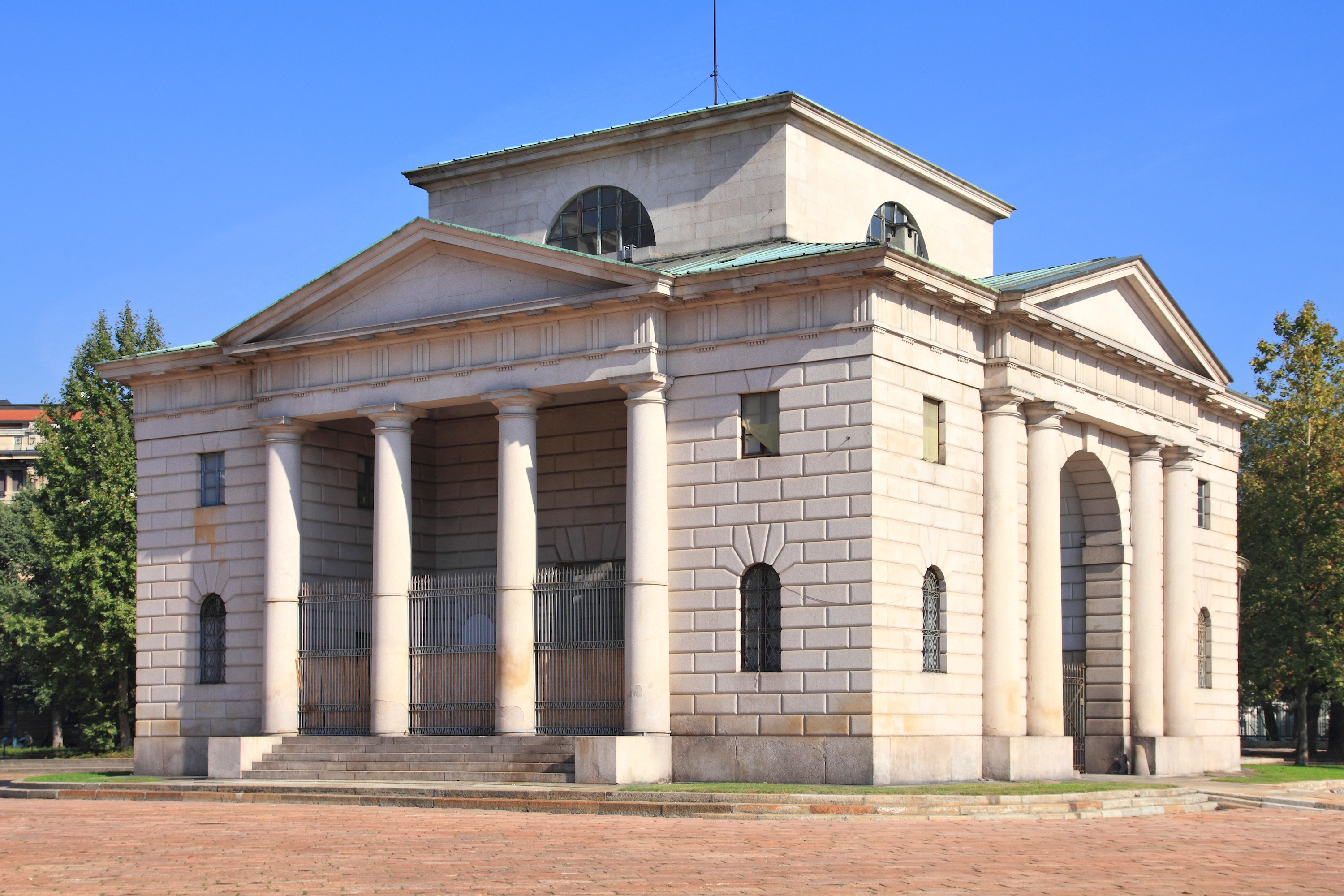 Former toll house (Italian: Casello dazario) of city gate at Piazza Sempione, Milan, Lombardy, Italy.